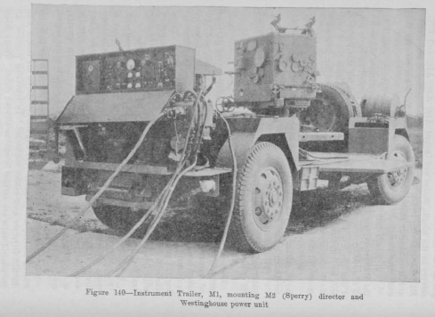 M1 Instrument trailer, with M2 director, used with 3-inch antiaircraft gun